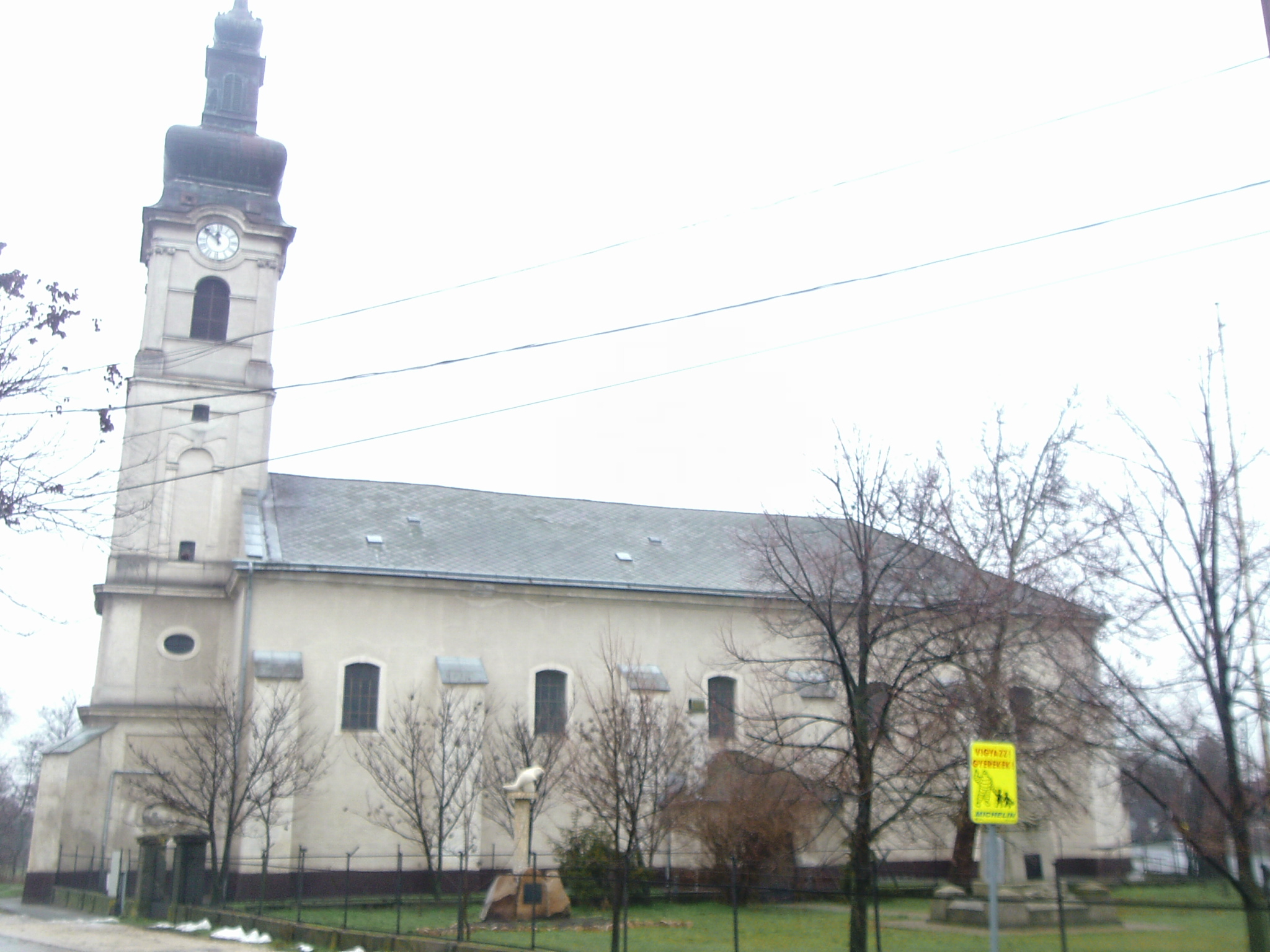 Solt, Hungary